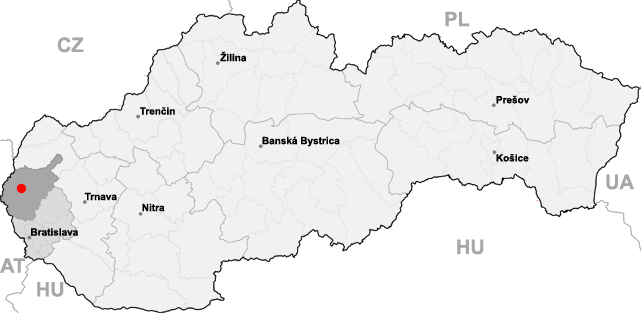 map of Slovakia, city of Malacky highlighted